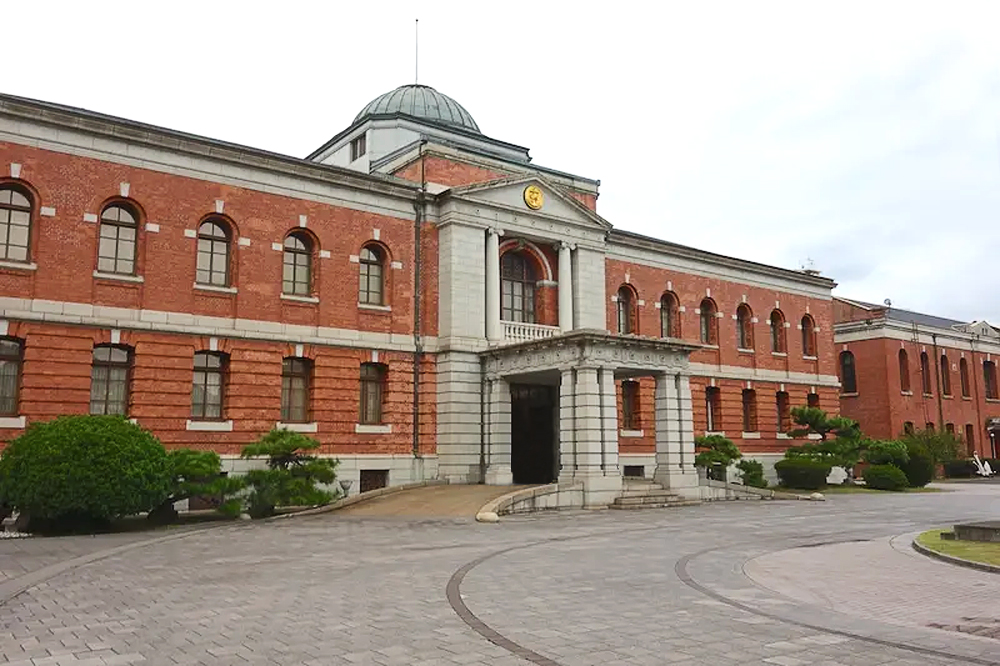 Kure District Headquarters